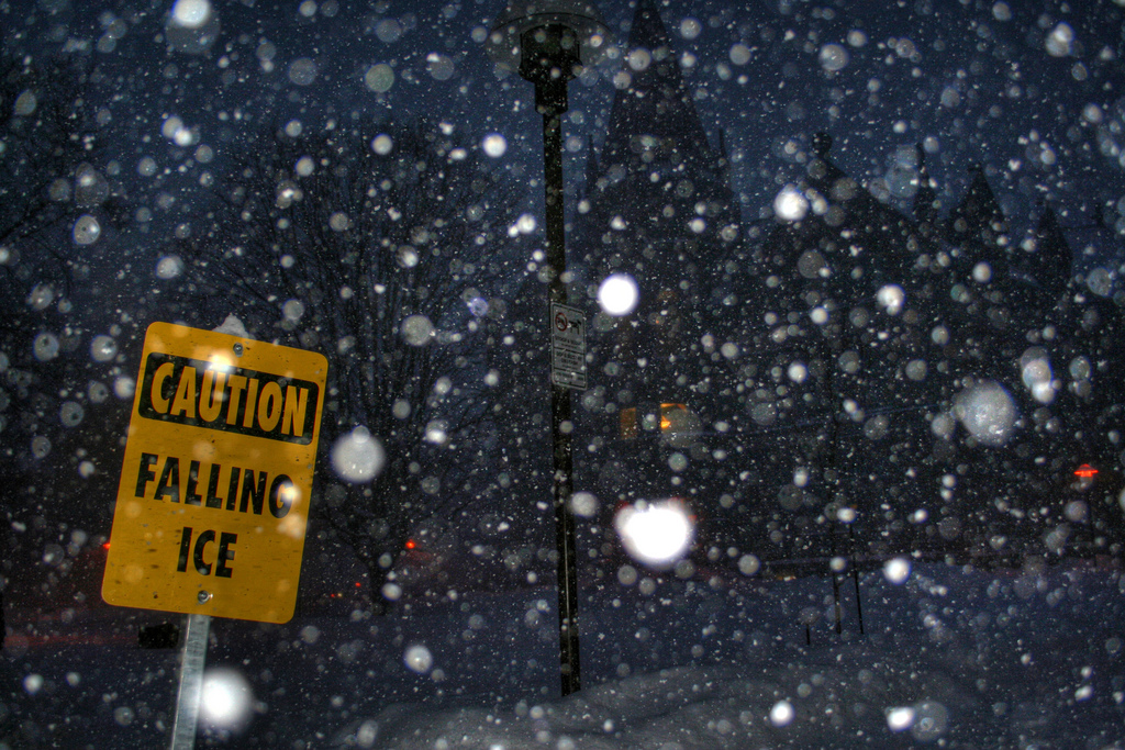 Snow falling at Victoria University, Toronto, Canada.